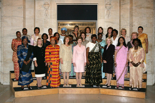 Mrs. Laura Bush stands with the first spouses who are participating in The White House Conference on Global Literacy Monday, Sept. 18, 2006, at The New York Public Library in New York City. The conference was organized to promote greater international involvement and new public/private partnerships in the global literacy efforts. With: Zineb Jammeh (Gambia) [1]